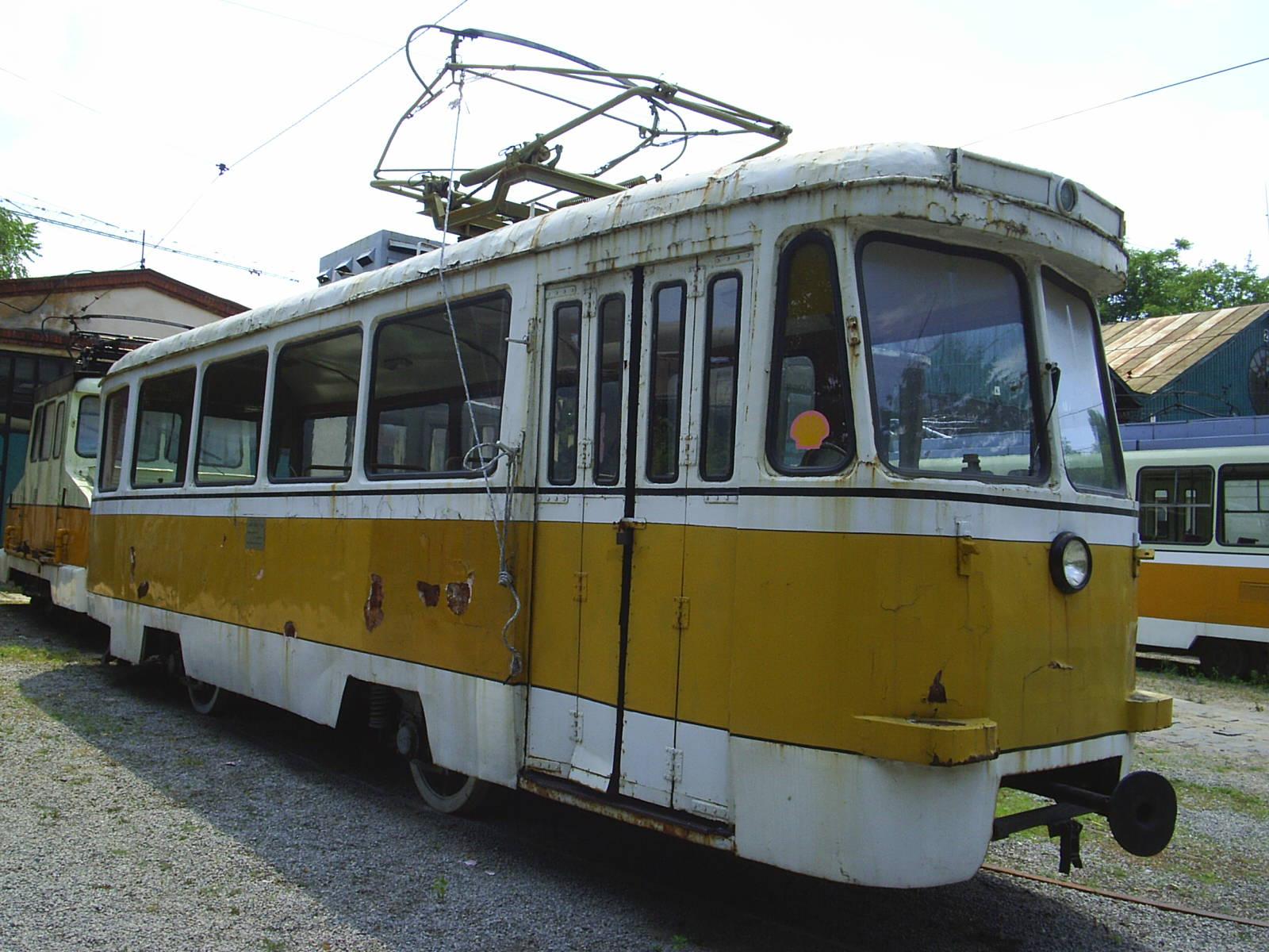 Timis 1 tram